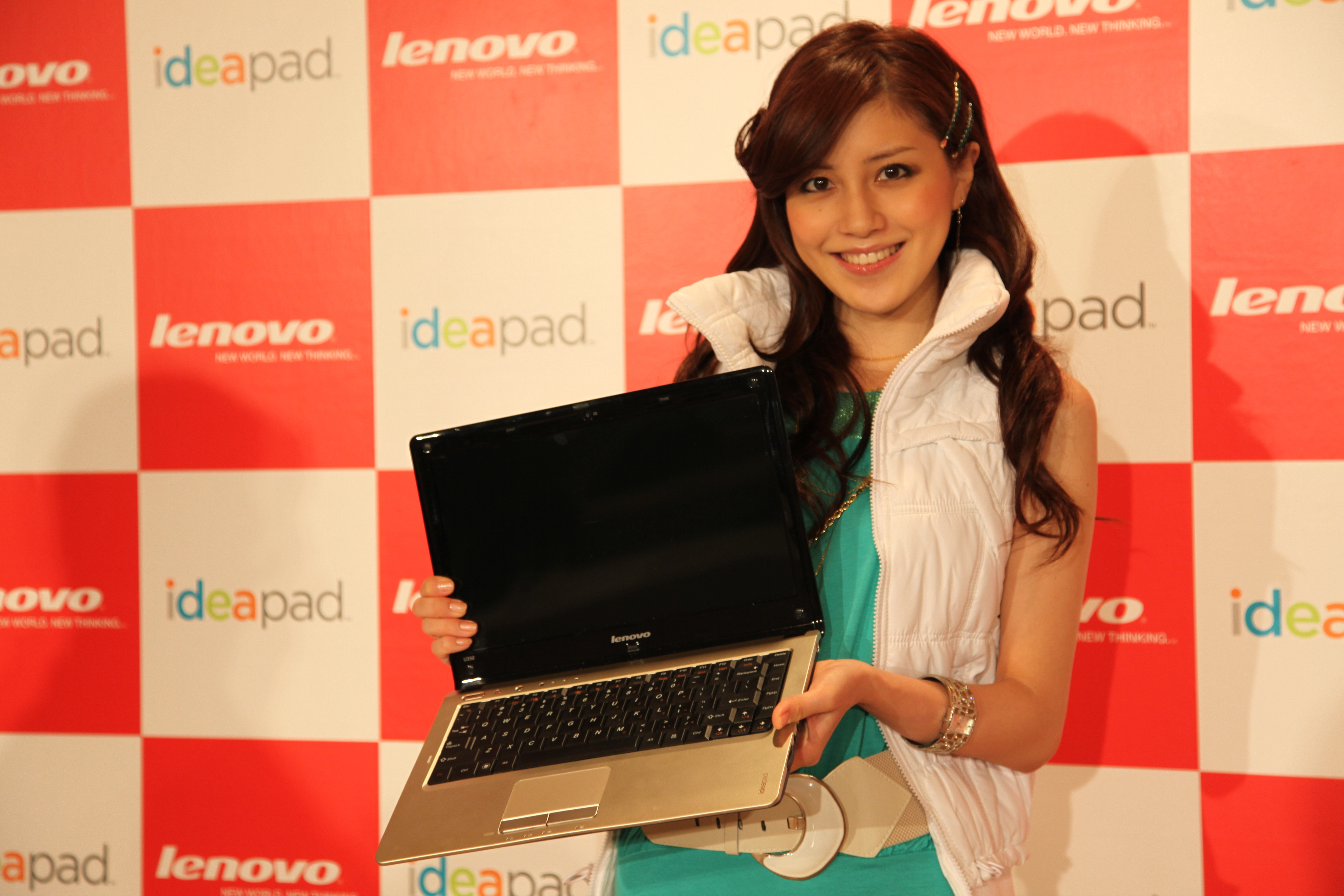 A model holding with a Lenovo IdeaPad at a launch party in Japan.